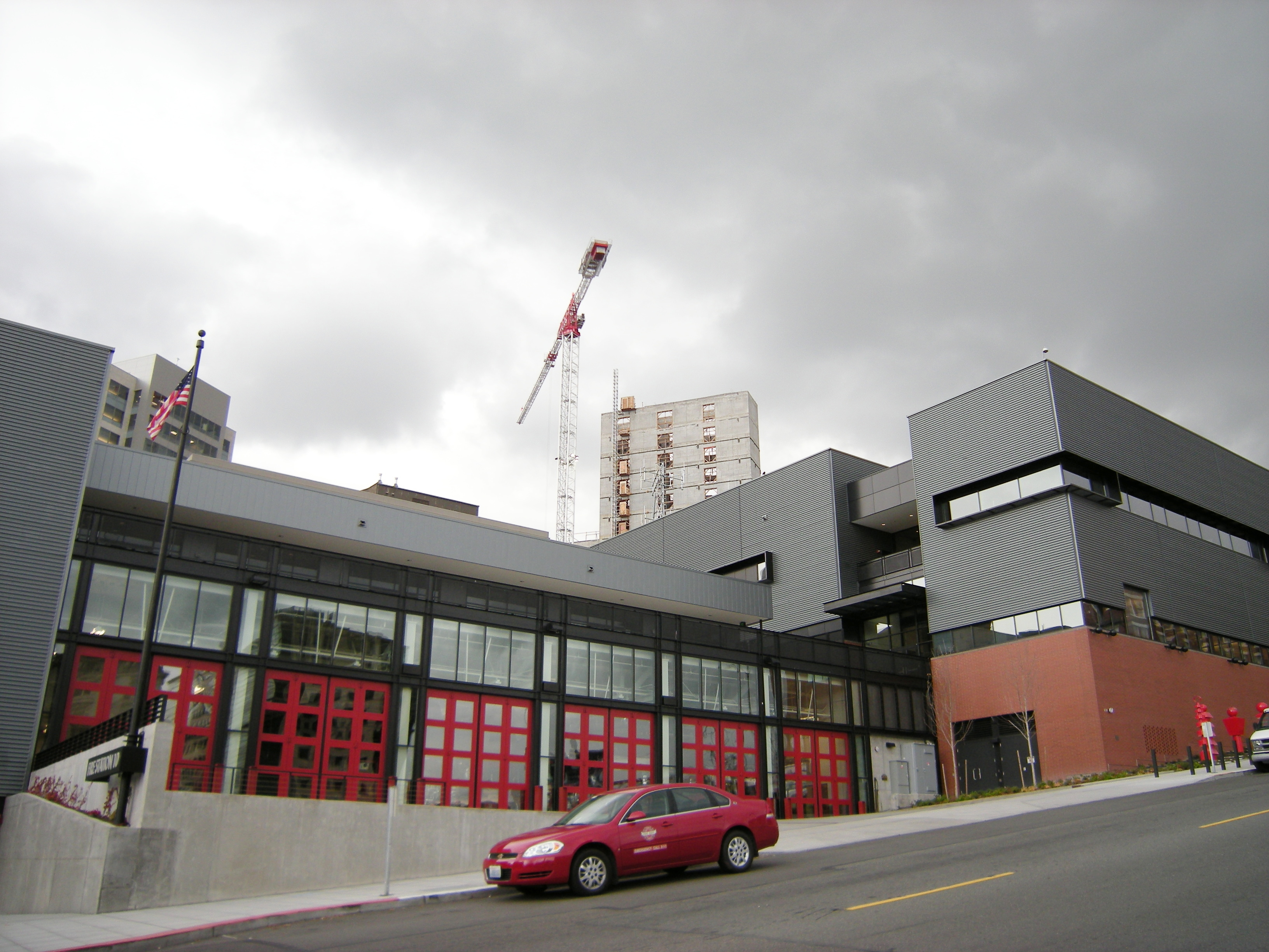 Seattle Fire Station No. 10, 400 S. Washington St., Seattle, Washington, USA.